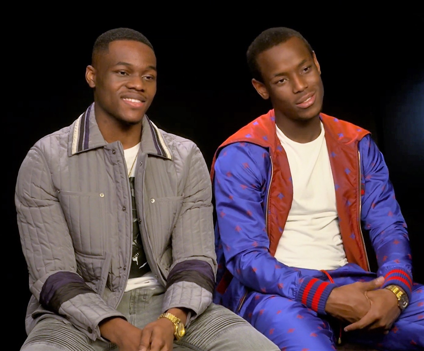 Interview with Stephen Odubola and Micheal Ward | Blue Story Maya Egbo interviews Stephen Odubola (Timmy) and Micheal Ward (Marco) from "Blue Story".